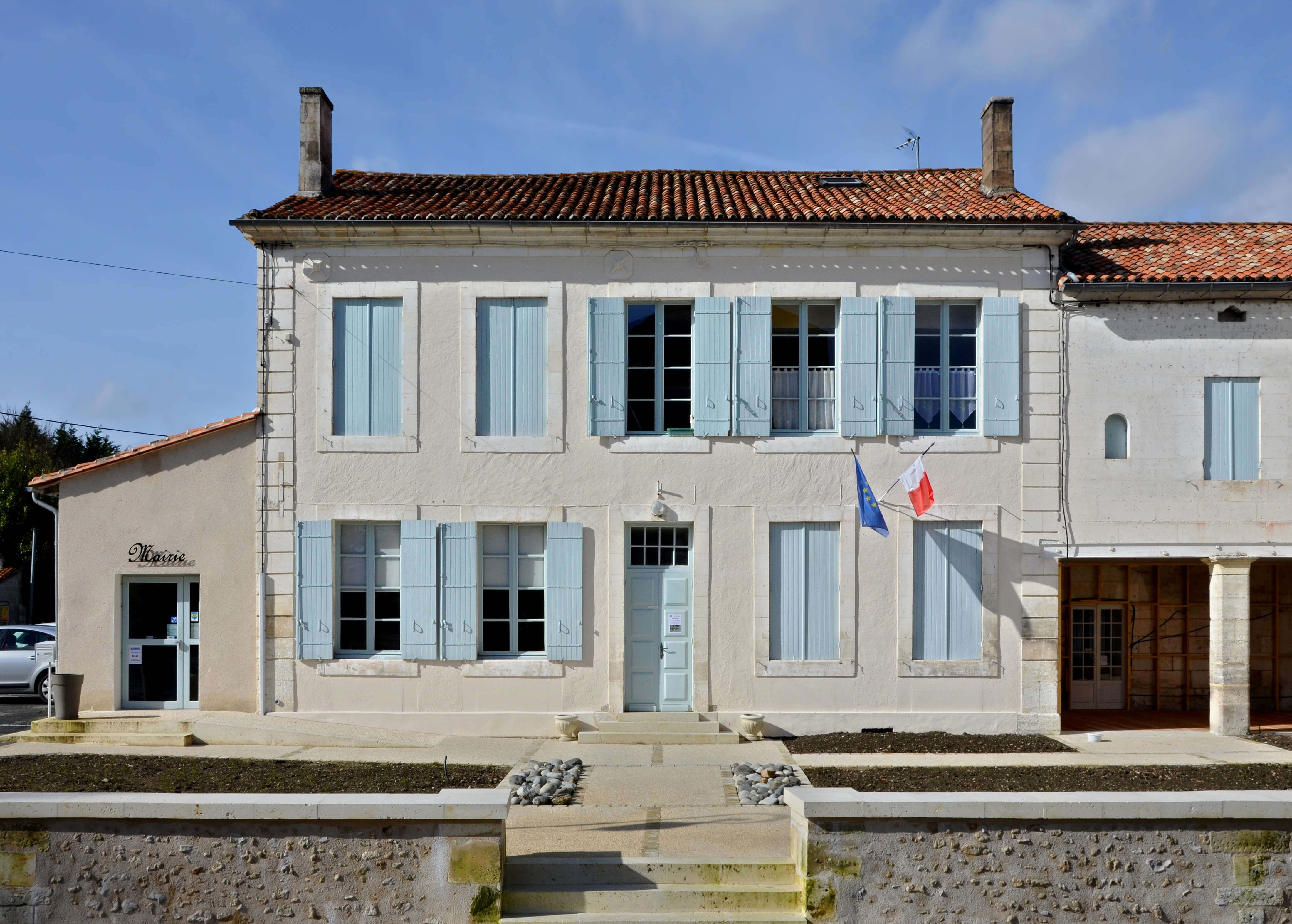 Town hall of Allemans, Dordogne, France.